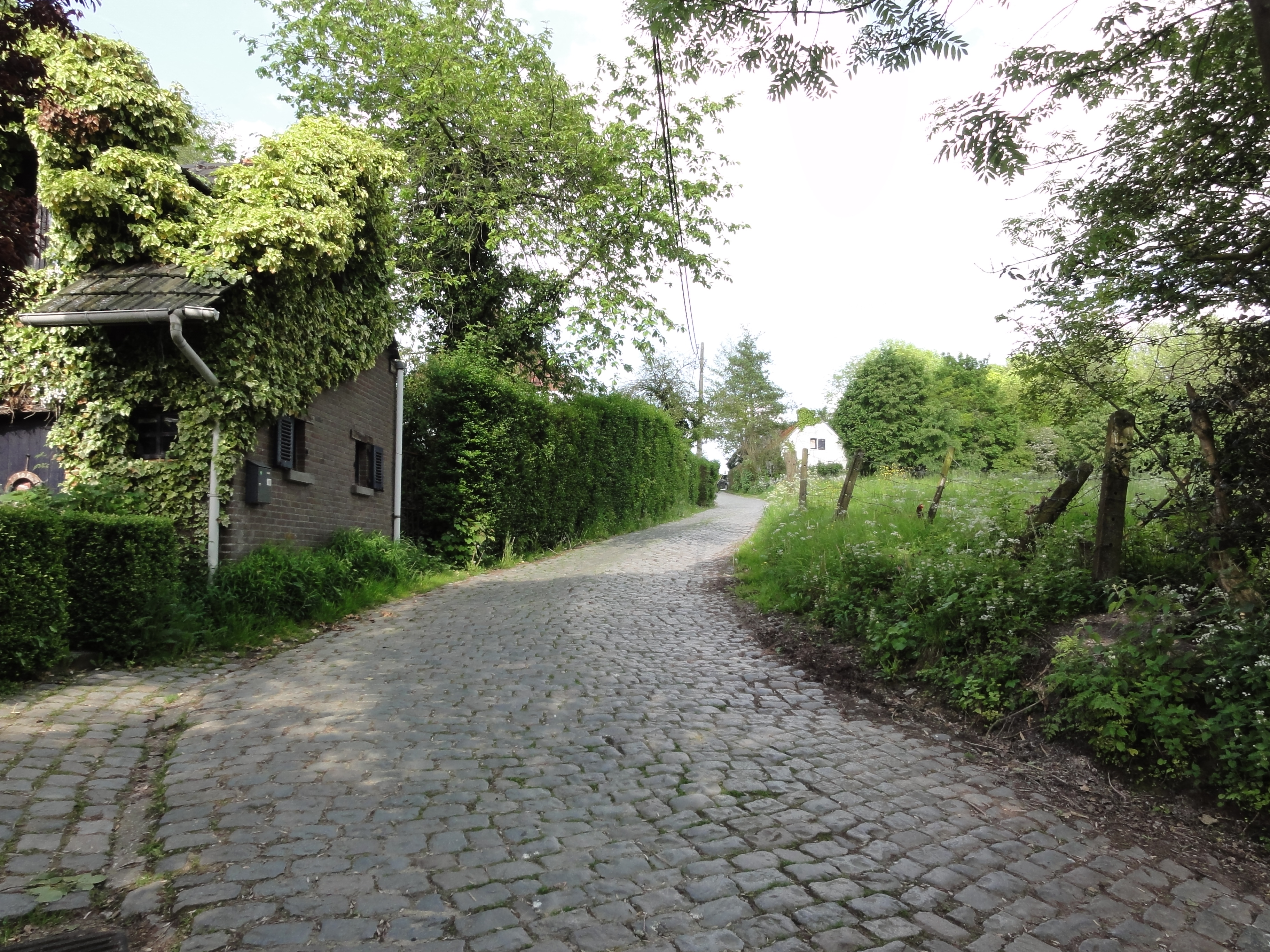 Molenberg cobblestone road and hill in Sint-Denijs-Boekel. Sint-Denijs-Boekel, Zwalm, East Flanders, Belgium